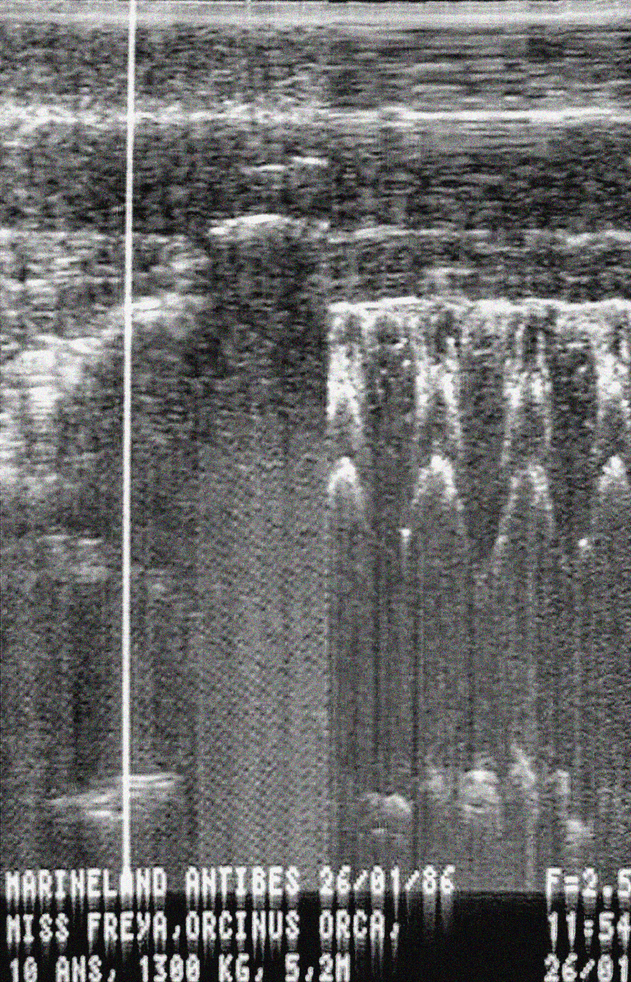 First ultrasound examination of a killer whale (orcinus orca)